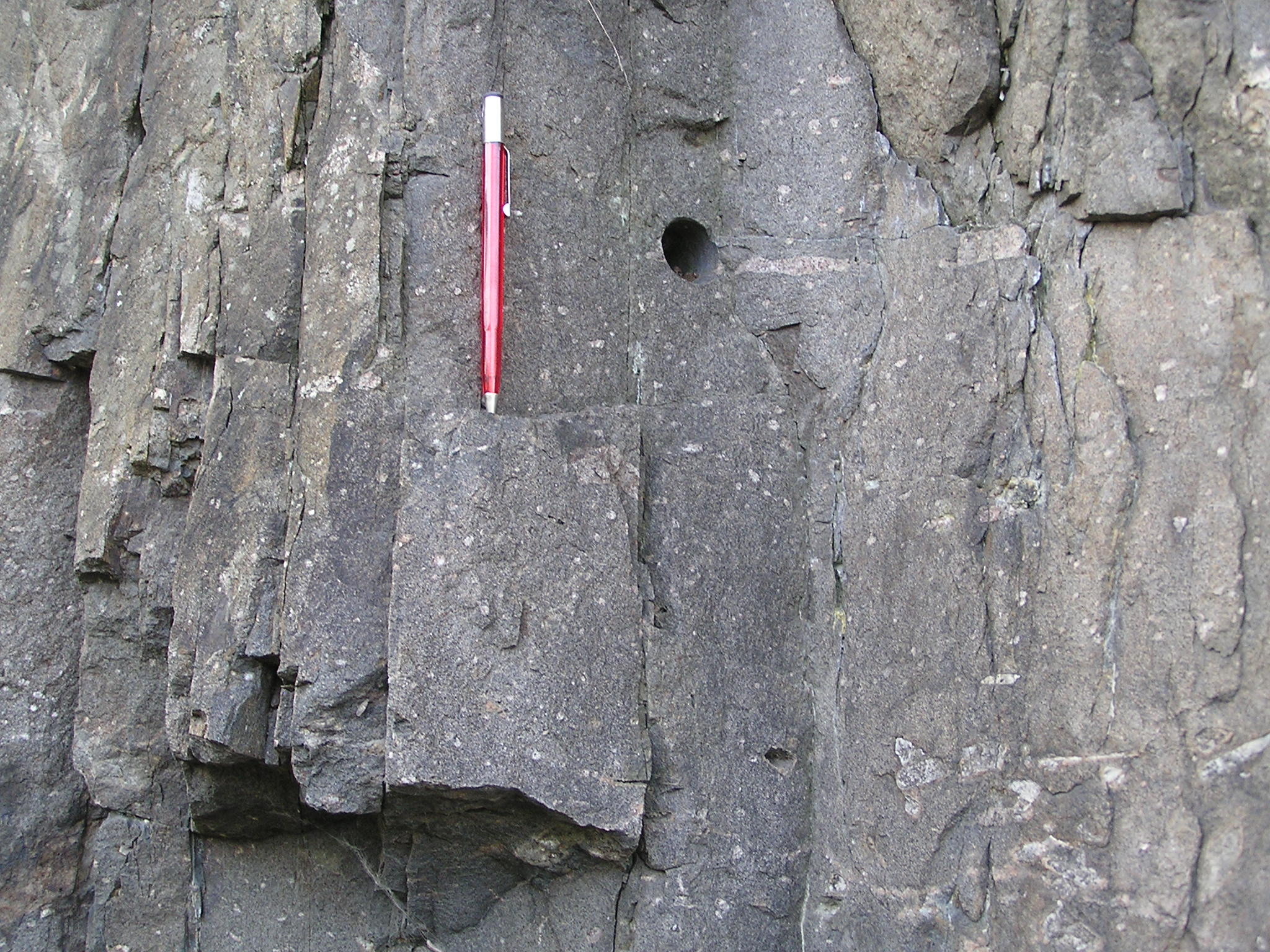 Monchiquite sill at Sainte Dorothée, Quebec, Canada. Courtesy Nelson Eby.